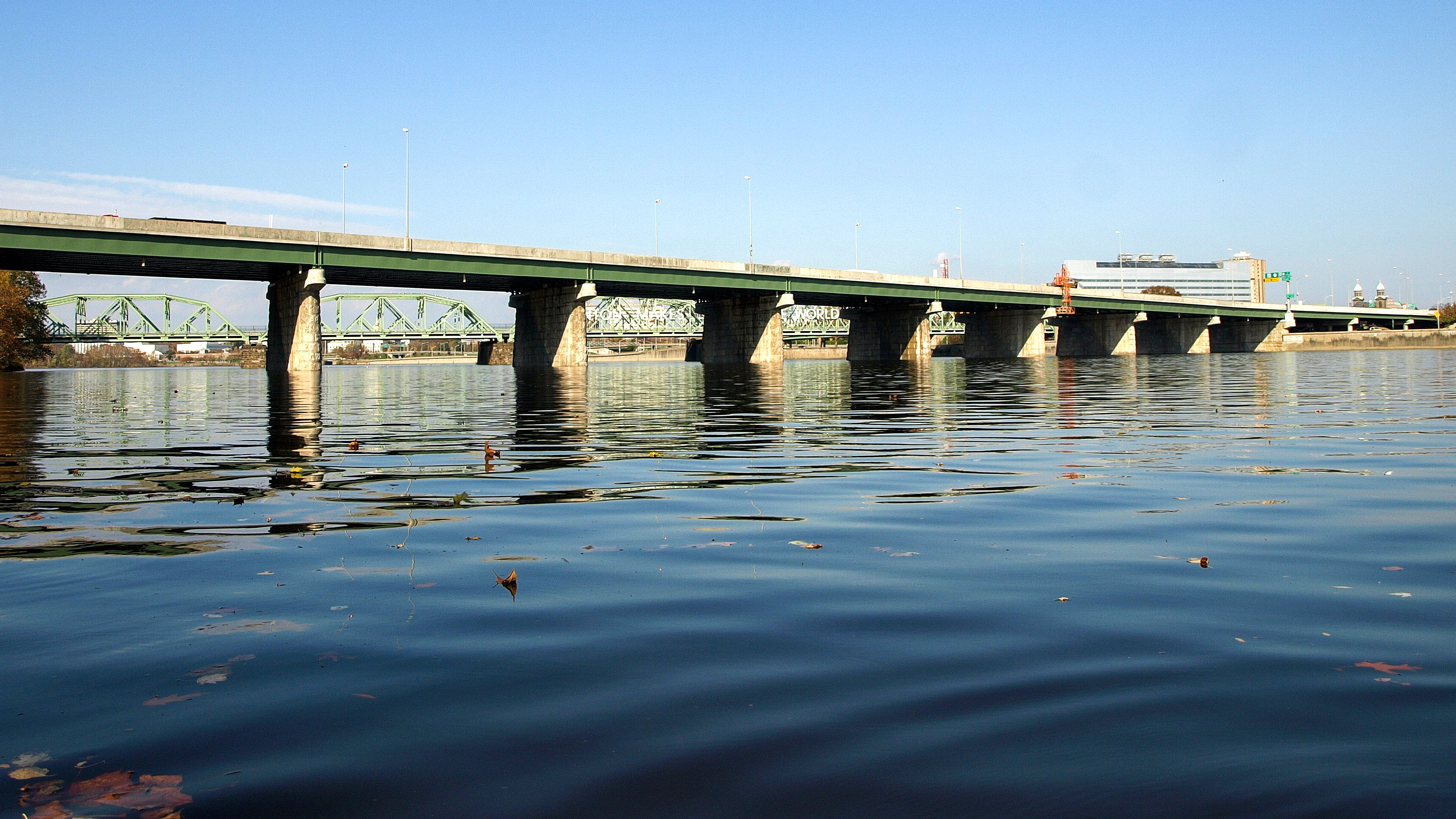 Trenton-Morrisville Toll Bridge over the Delaware River, Morrisville PA - Trenton NJ (looking northeast by kayak)